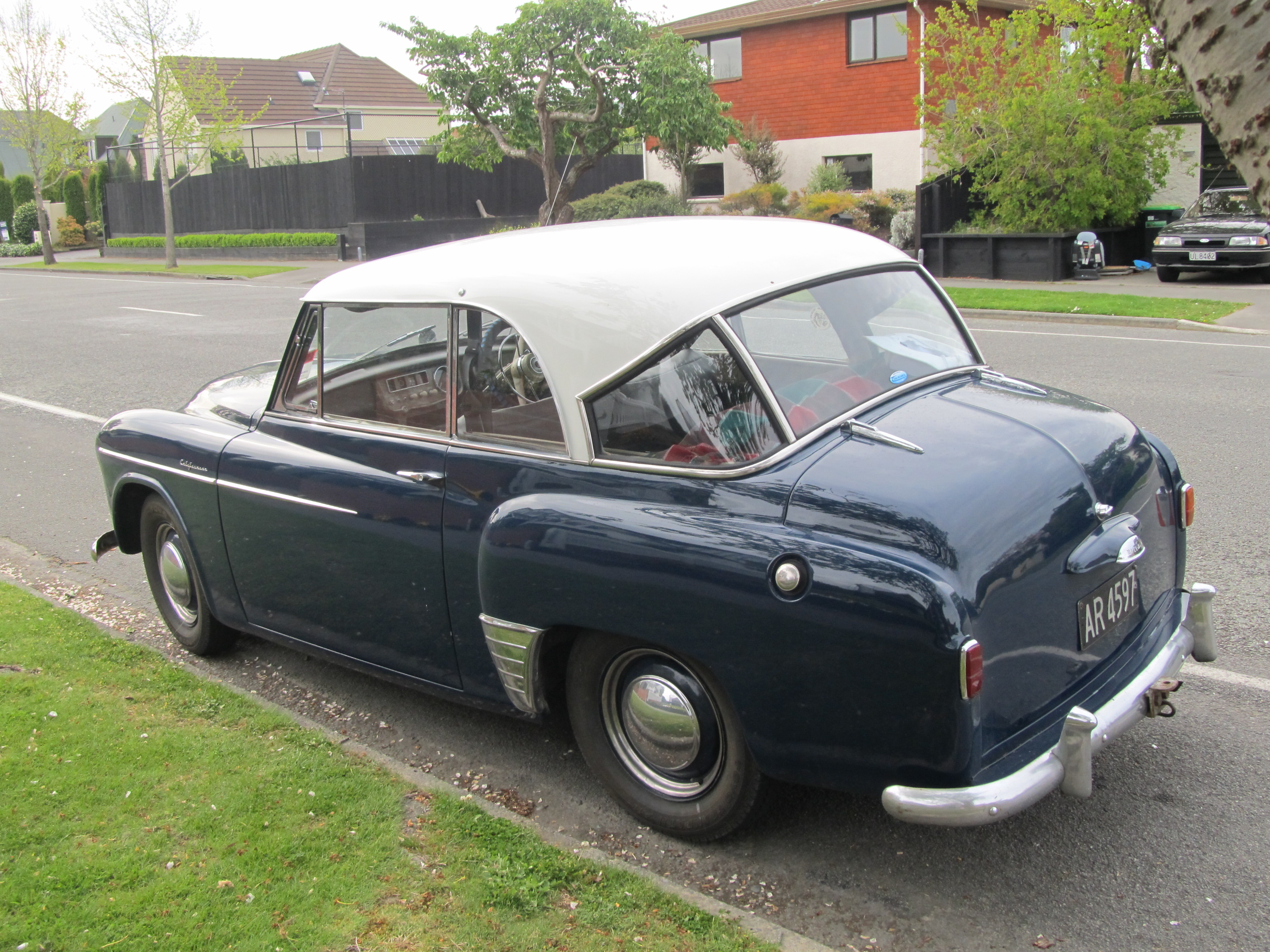 AR4597 These aren't actually any bigger than a standard Minx! It looks a lot like a squashed American car, but with a name like Californian I doubt that's coincidental...